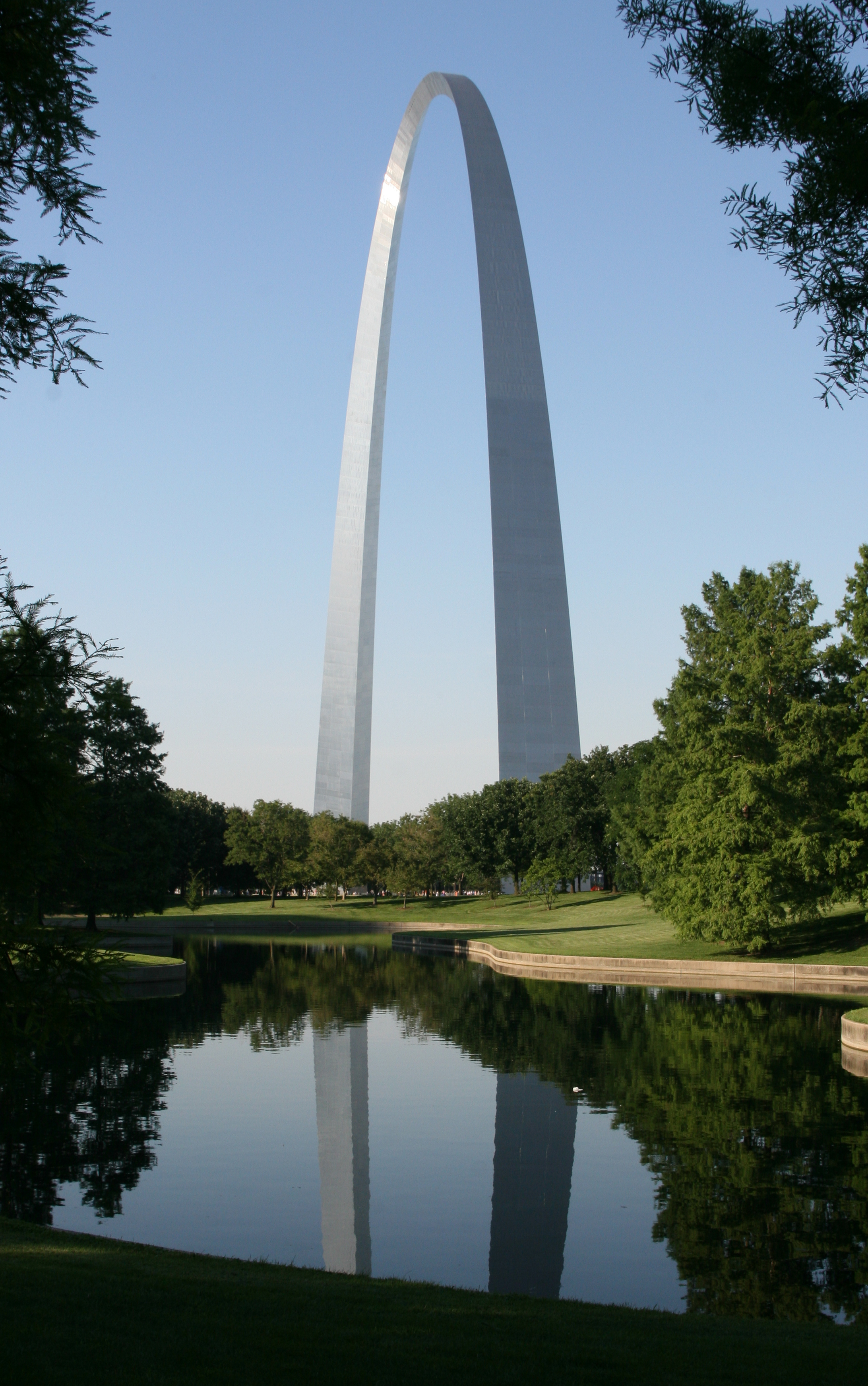 Arch Reflection 1